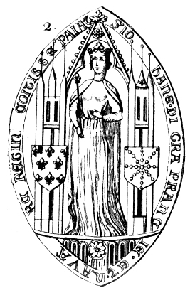 Seal of Joan II, Countess of Burgundy (15 January 1292 – 21 January 1330). The legend around the edge reads clockwise as follows: "S. Iohan[na]e, D[e]i Gra[tia] Francie et Navar[r]e Regin[a], Co[m]itissa [Burgundie] Palat[ina]" ("Seal of Joan, by the grace of God, Queen of France and Navarre, Countess Palatine of Burgundy").